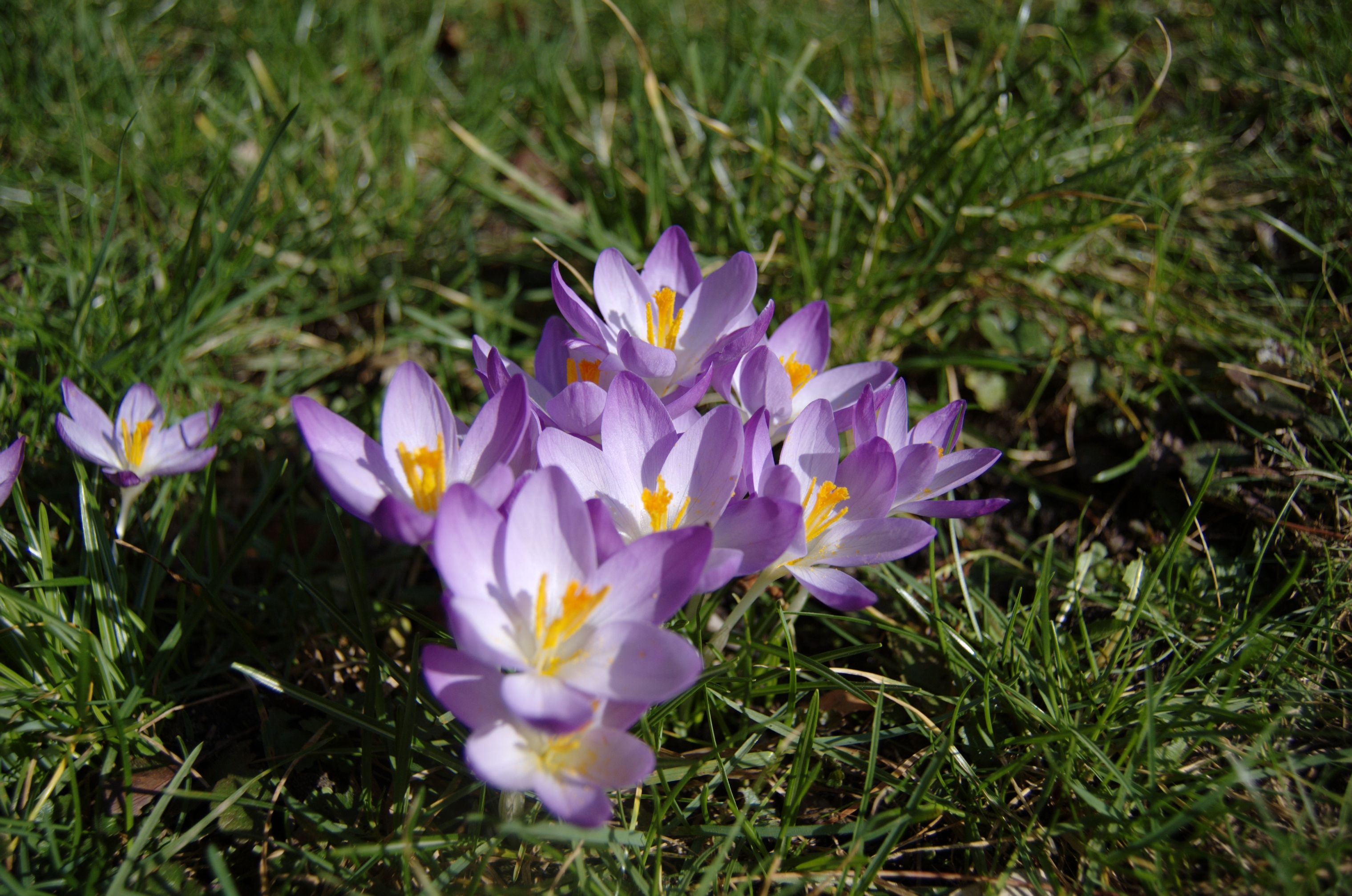 Crocus tommasinianus - 3 mars 2009